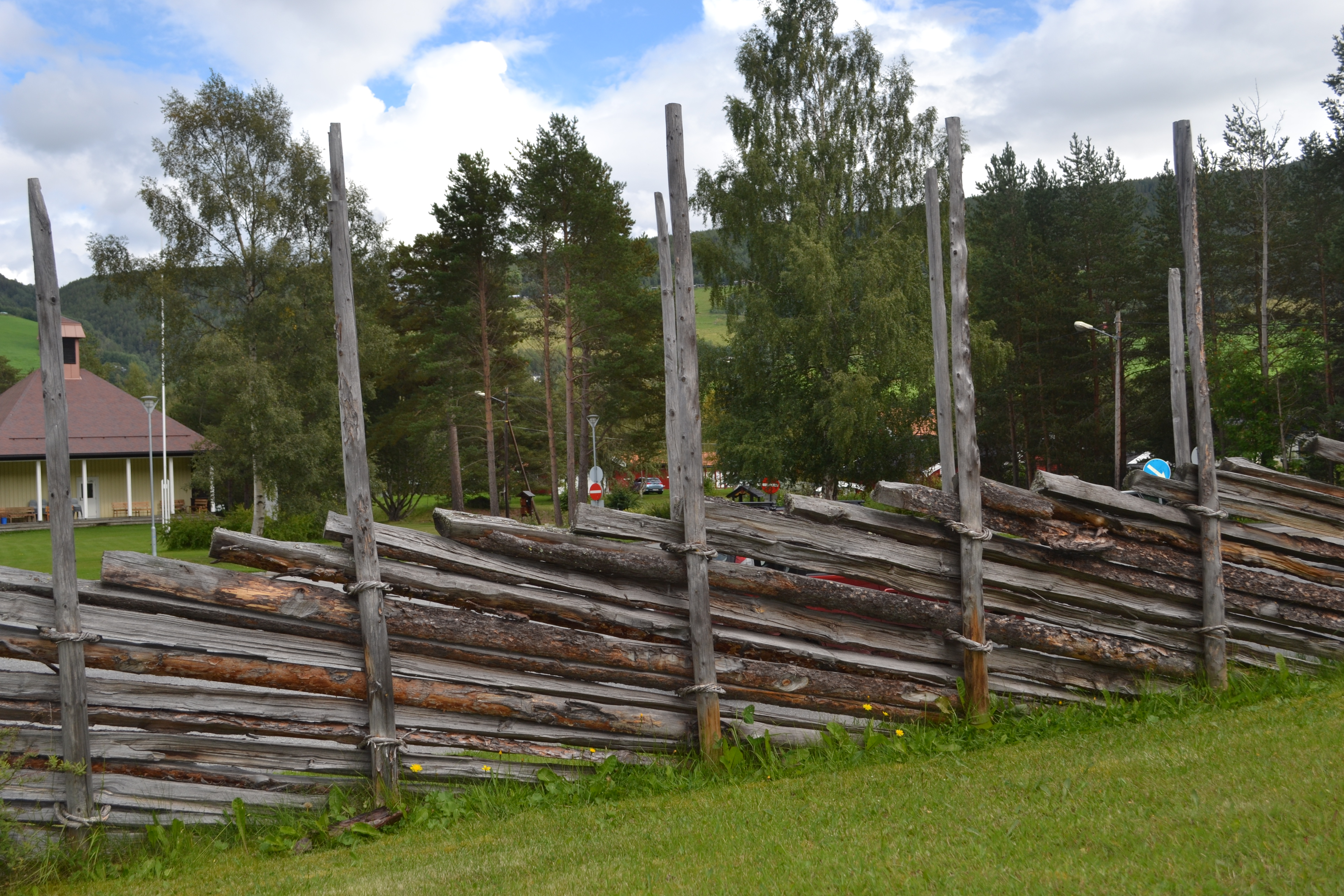 Traditional Scandinavian fence at Hjerleid vocational school in Dovre, Norway. Made from slanting rails of split spruce between pairs of uprights.